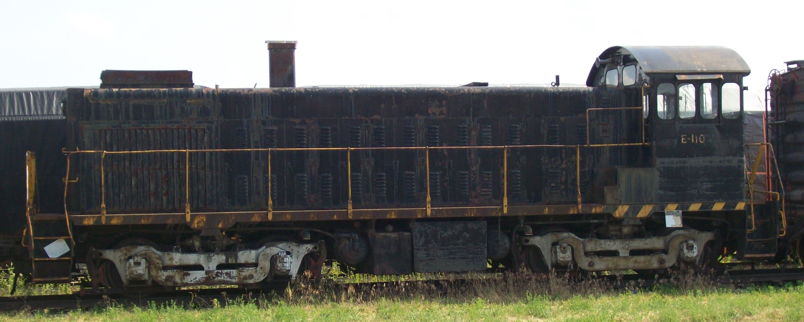 Photograph of Armco Steel E110, one of two surviving Lima LS-1200 locomotives, at the Illinois Railway Museum in Union.